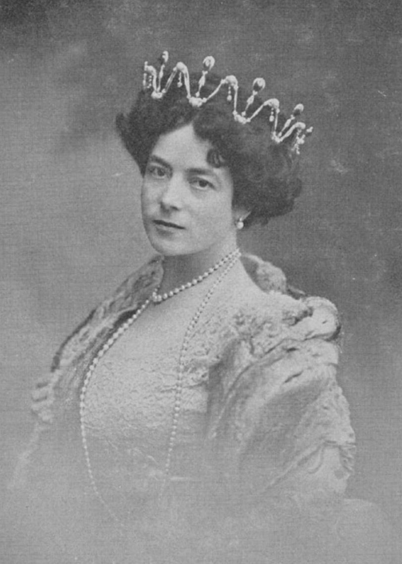 Lilie Bouton de Fernandez Azabal (1875–1967)